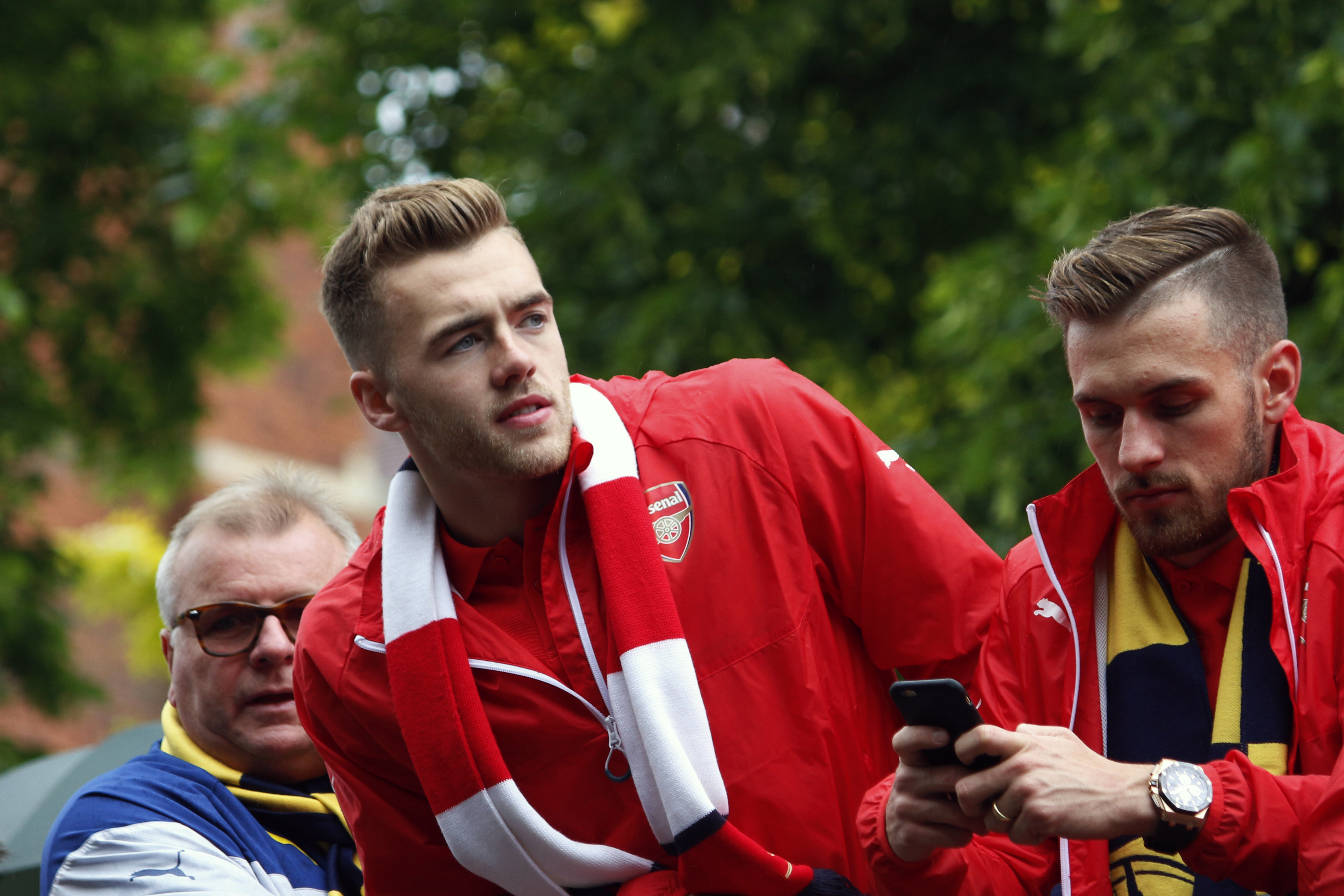 Arsenal FA Cup Winners Parade, 31st May 2015, Islington, London. Aaron Ramsey Calum Chambers